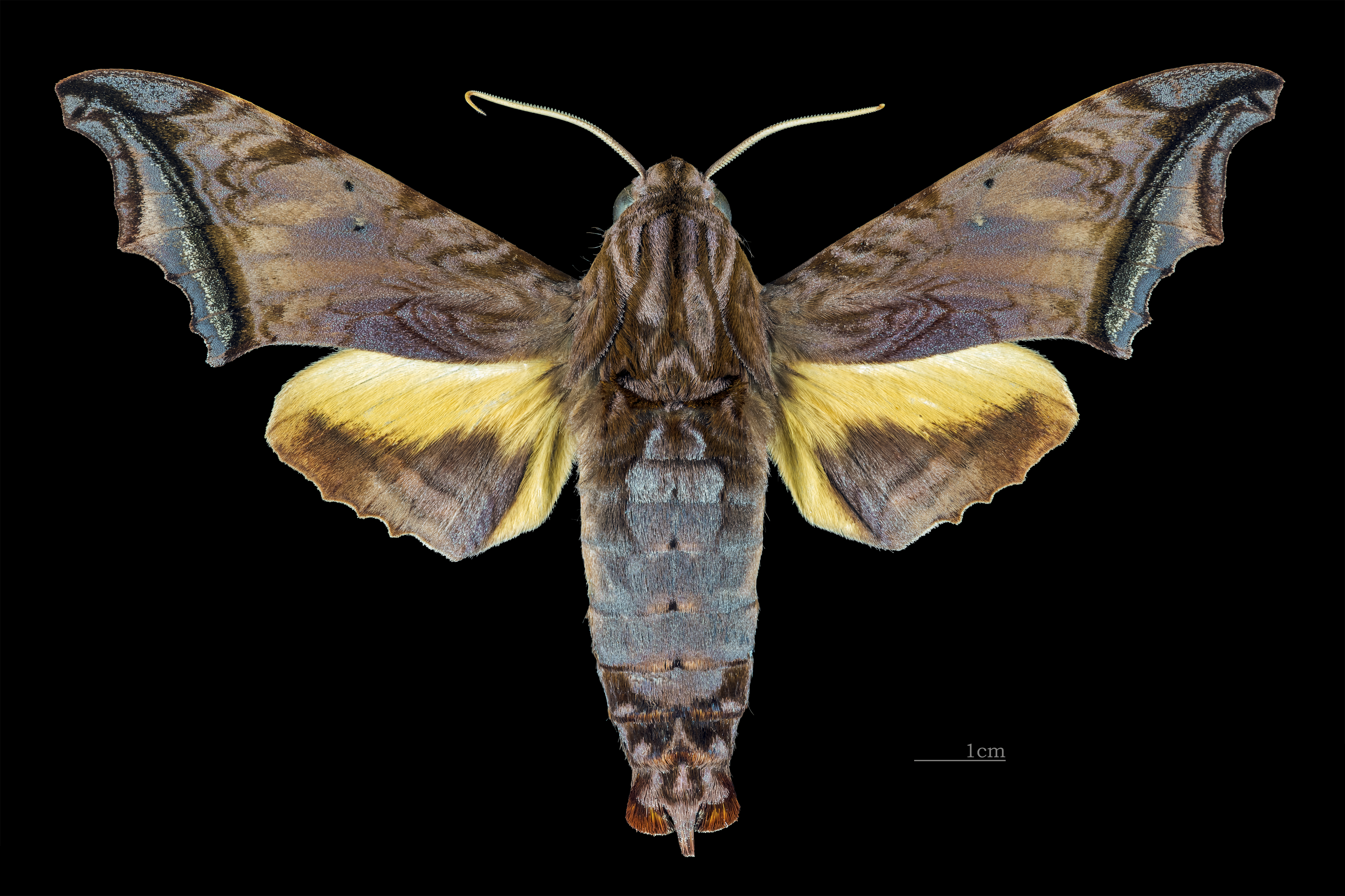 Nyceryx stuarti - Dorsal side Collection of the Mathematician Laurent Schwartz